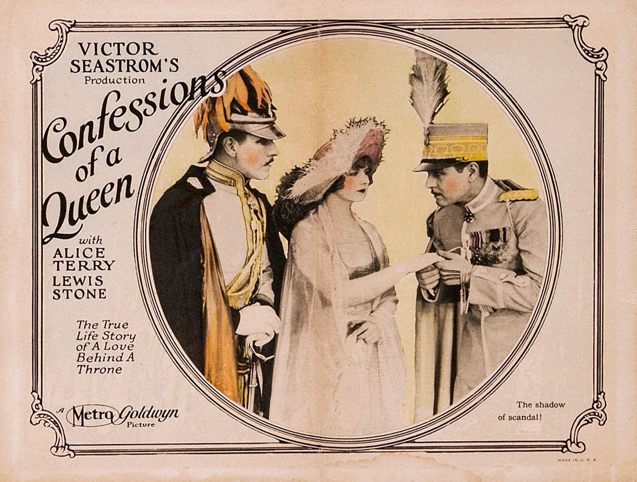 Lobby card for the American drama film Confessions of a Queen (1925). There are no copyright marks on the card. At lower right is Made in USA.